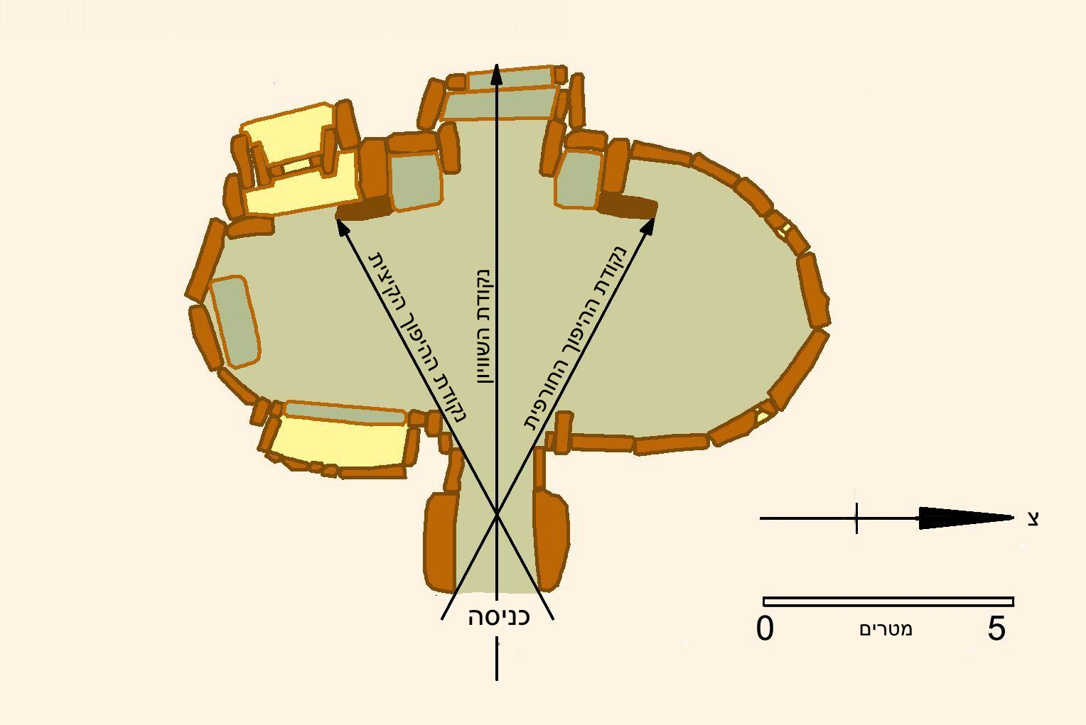 Temple_solaire_Mnajdra